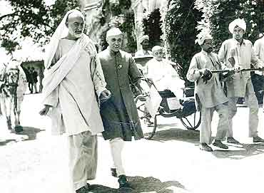 Abdul Ghaffar Khan and Patel on their way to meet the Cabinet Mission in 1946